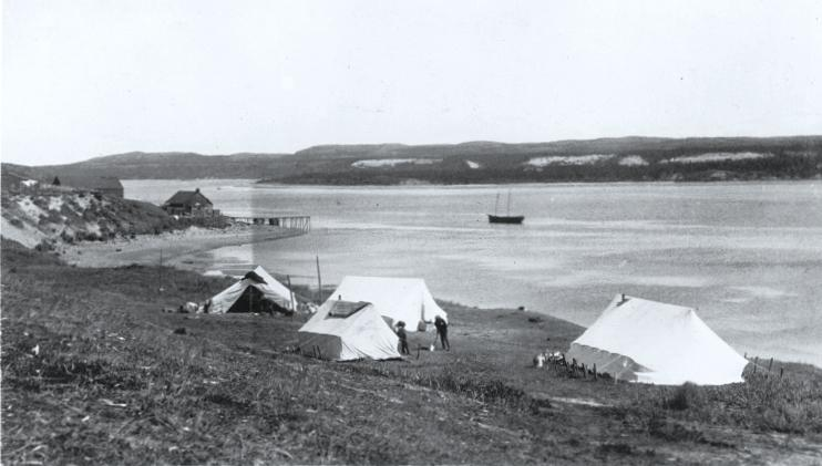 Photograph, Establishing preliminary camp at Great Whale River, Revillon Frères, QC, 1922, Samuel Herbert Coward, Silver salts on paper mounted on paper - Gelatin silver process - 7 x 13 cm